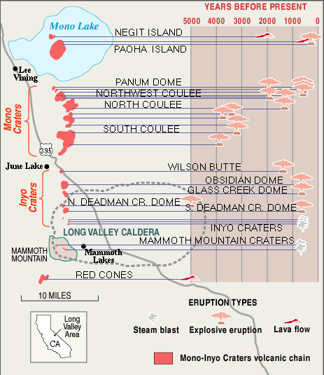 Mono-Inyo Eruptions During the Past 5,000 Years